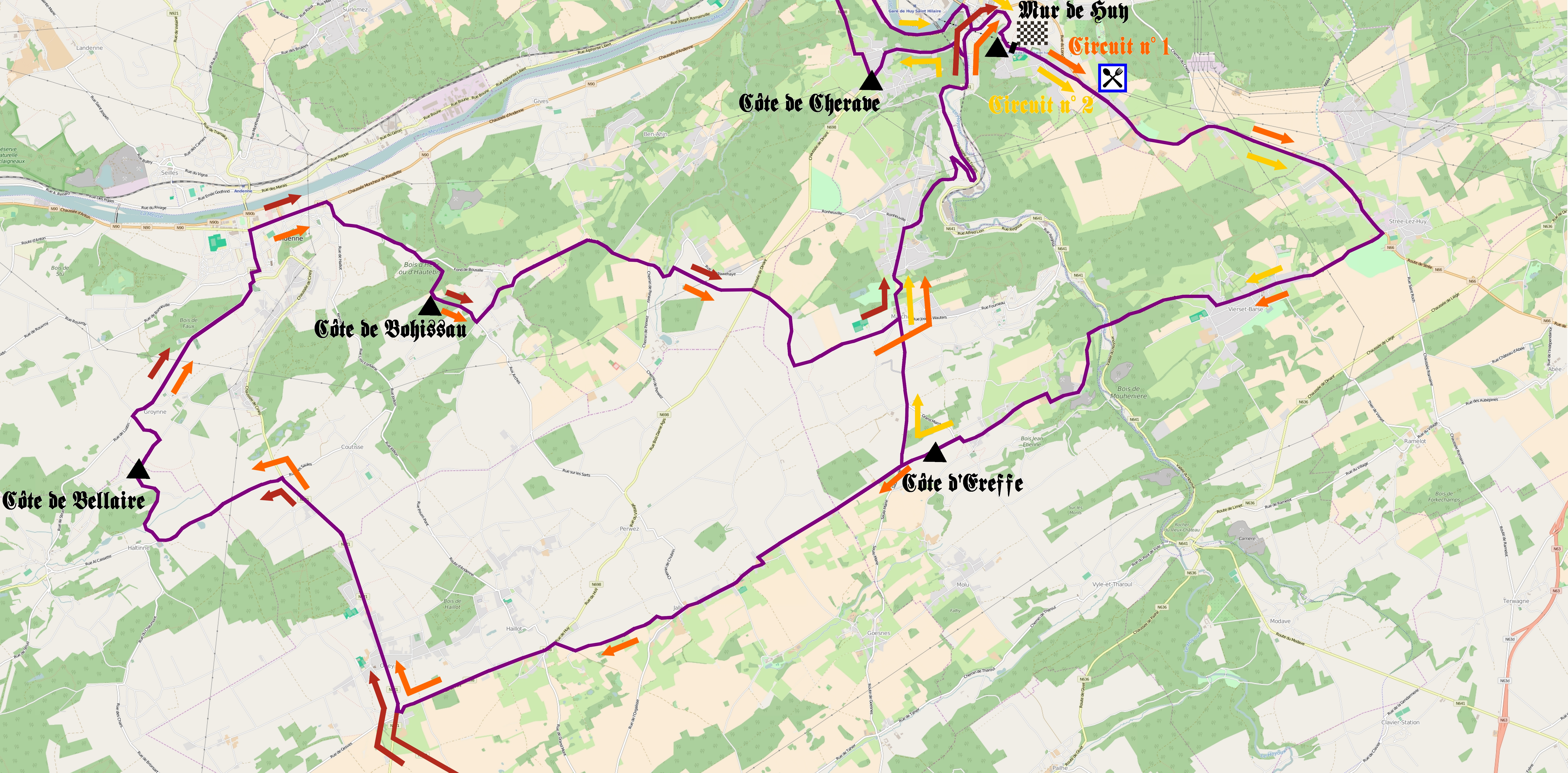 Parcours du circuit local de la Flèche wallonne 2015. This map may be incomplete, and may contain errors. Don't rely solely on it for navigation.